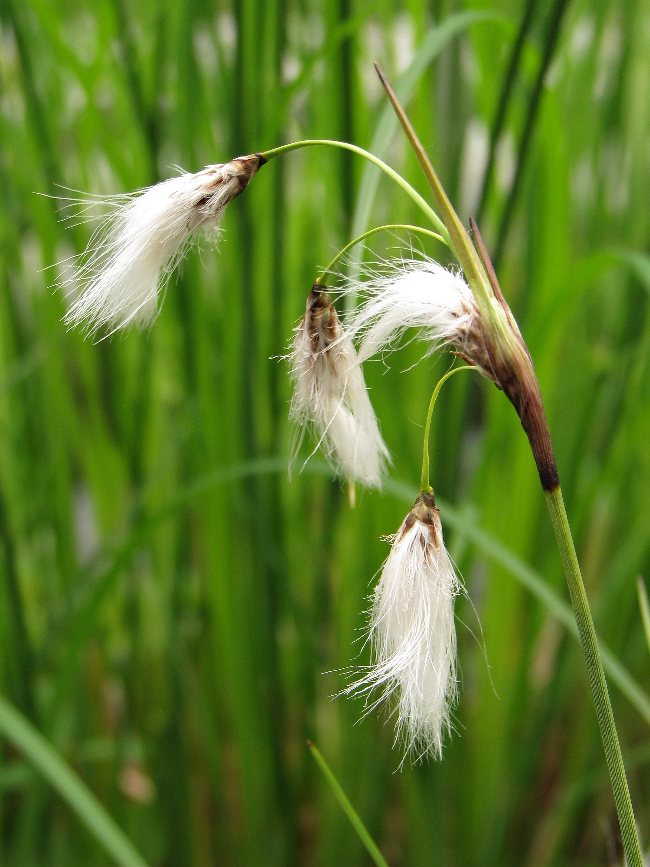 Eriophorum angustifolium, infructescence, plants cultivated in Wrocław Unversity Botanical Garden, Wrocław, Poland.